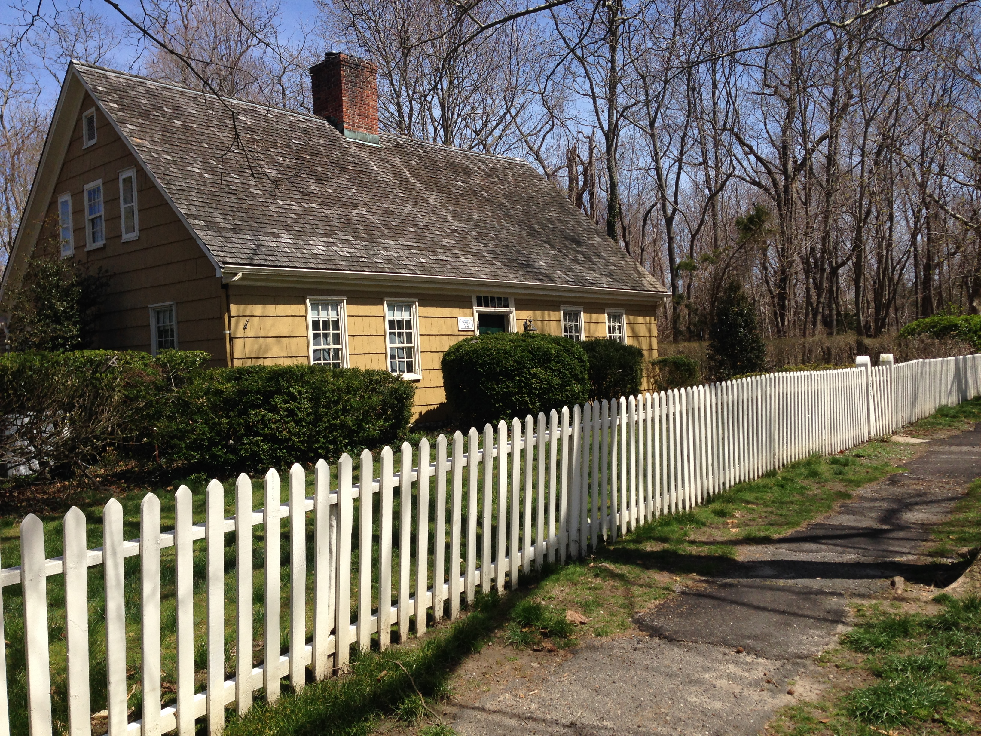 The 1785 Timothy Miller house in Miller Place, New York